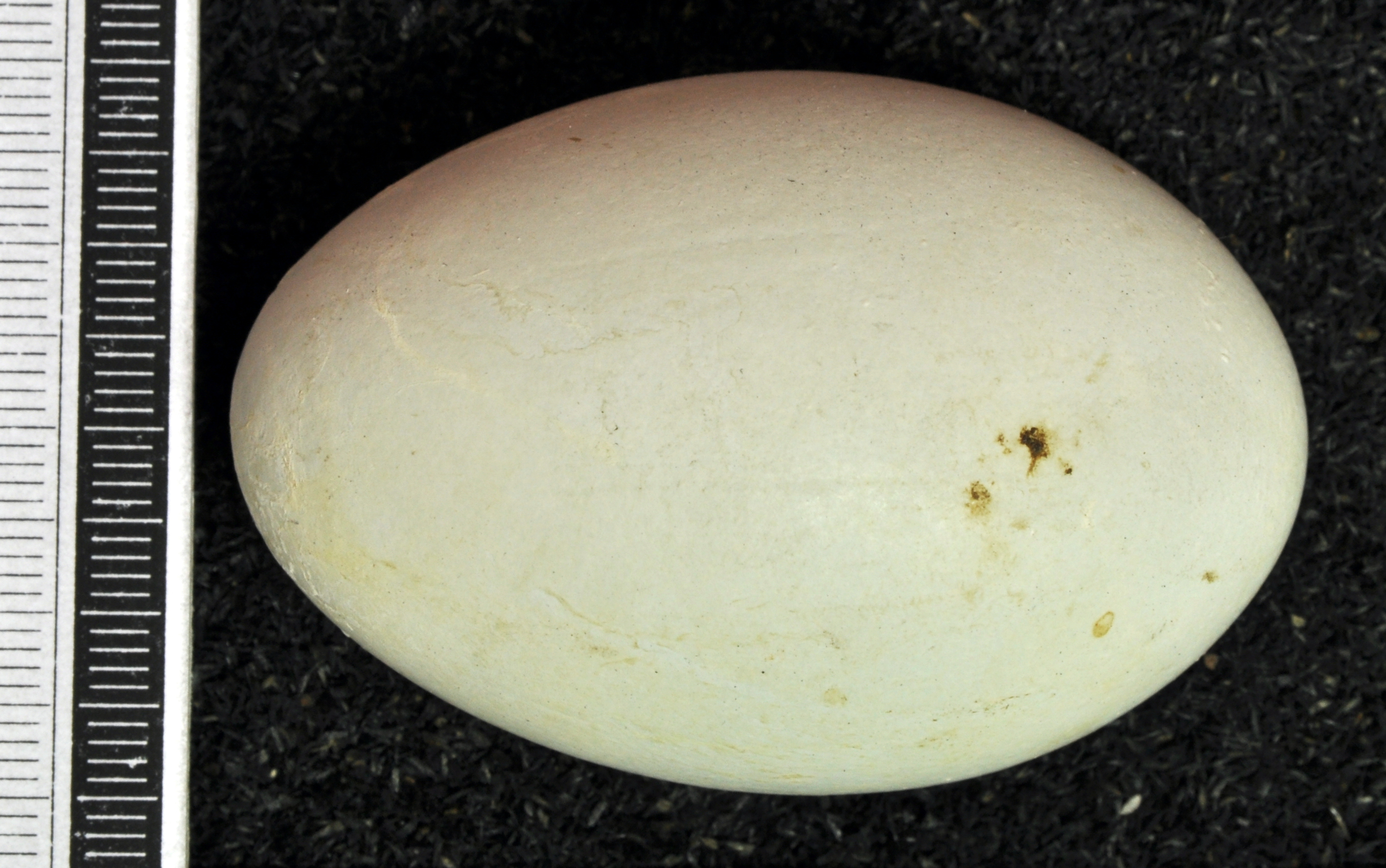 Purple heron Ardea purpurea , egg, Coll. Museum Wiesbaden